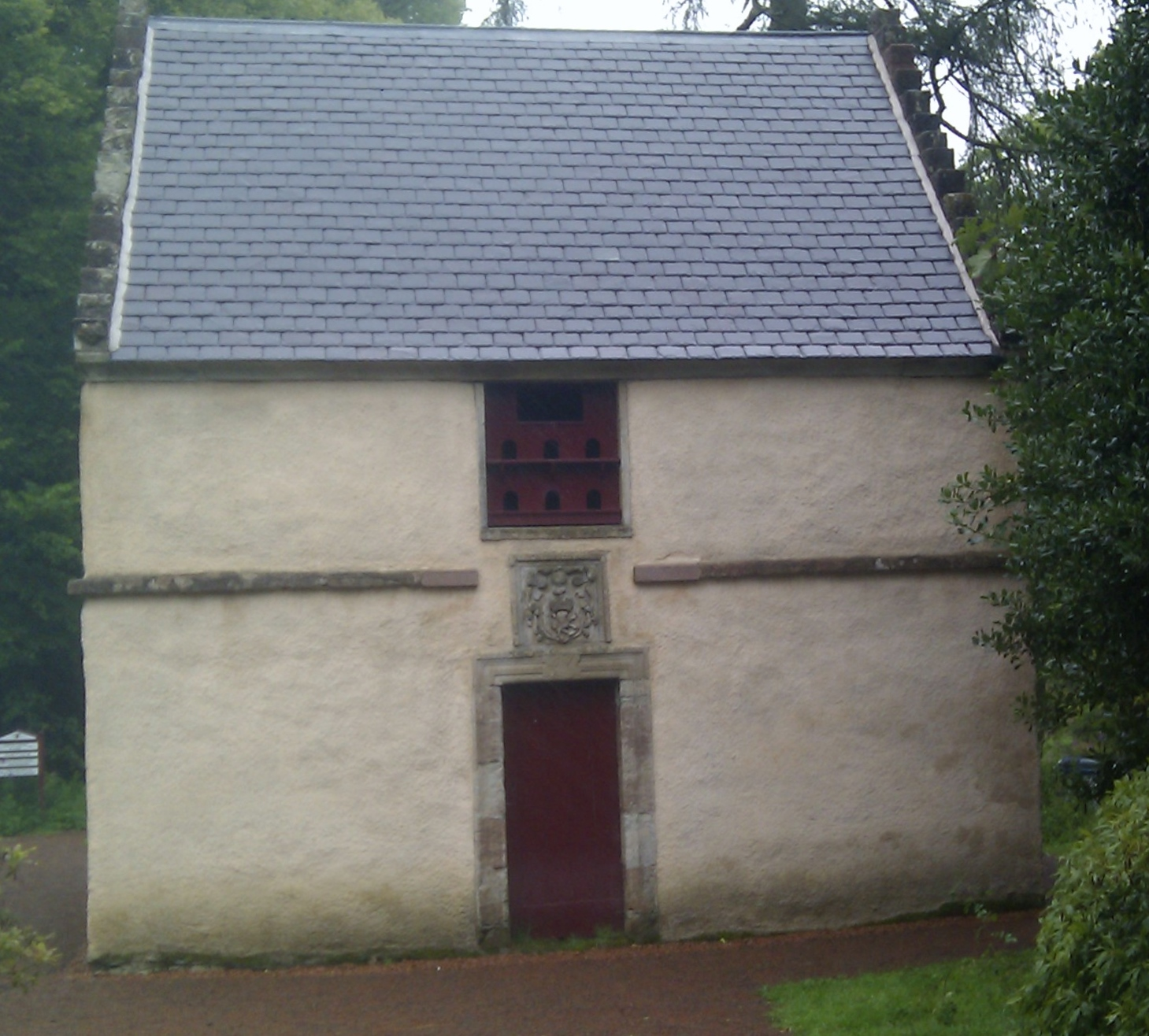 Dovecot / doocot at Dumfries House, Cumnock, East Ayrshire, Scotland